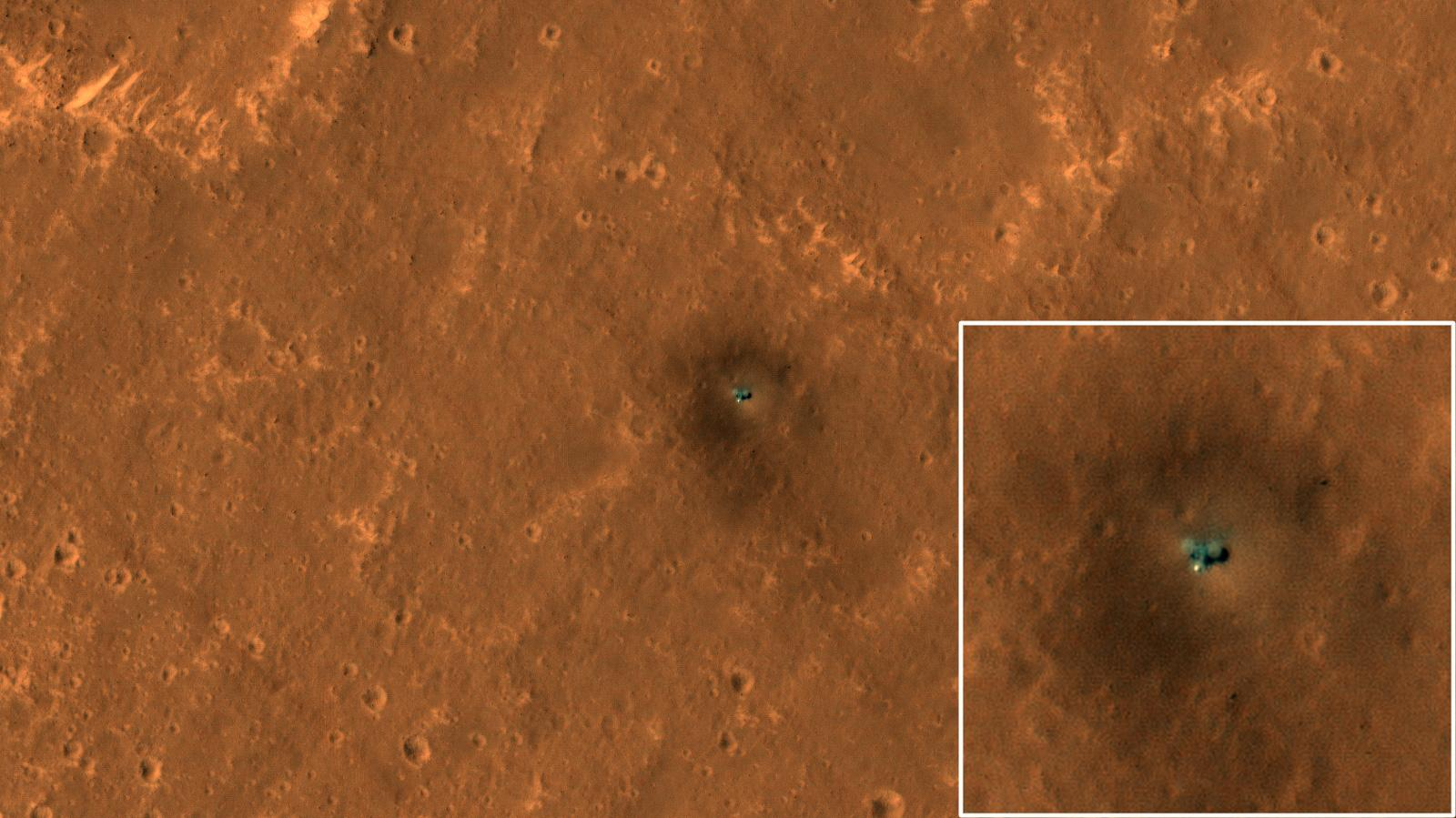 PIA23376: The Best View of InSight The HiRISE camera on NASA's Mars Reconnaissance Orbiter got its best view yet of the agency's InSight lander on Sept. 23, 2019. HiRISE has been monitoring InSight's landing site on the Red Planet for changes such as dust-devil tracks (the slightly dark diagonals streaks crisscrossing the surface). This new image clearly shows the two circular solar panels on either side of the lander body. From end to end, the panels span 20 feet (6 meters); the image was taken from an elevation of 169 miles (272 kilometers) above the surface. The bright spot on the lower side of the spacecraft is the dome-shaped protective cover over InSight's seismometer. Surrounding the spacecraft is a dark halo created by retrorocket thrusters scouring the surface during landing. Dark streaks seen crossing diagonally across the surface are dust-devil tracks. Several factors make this image crisper than past images. For one thing, there's less dust in the air this time of year compared to before. And shadows are offset from the lander because this is an oblique view looking west. Moreover, the lighting was better for avoiding the bright reflections from the lander or its solar panels that have obscured surrounding pixels in other images. The seismometer cover to the south of the lander is still bright because its dome shape always produces a mirror-like reflection over some small area. NASA's Jet Propulsion Laboratory in Pasadena, California, manages both the orbiter and lander missions for NASA's Science Mission Directorate in Washington. JPL is a division of Caltech. The University of Arizona in Tucson operates HiRISE, which was built by Ball Aerospace & Technologies Corp. in Boulder, Colorado.